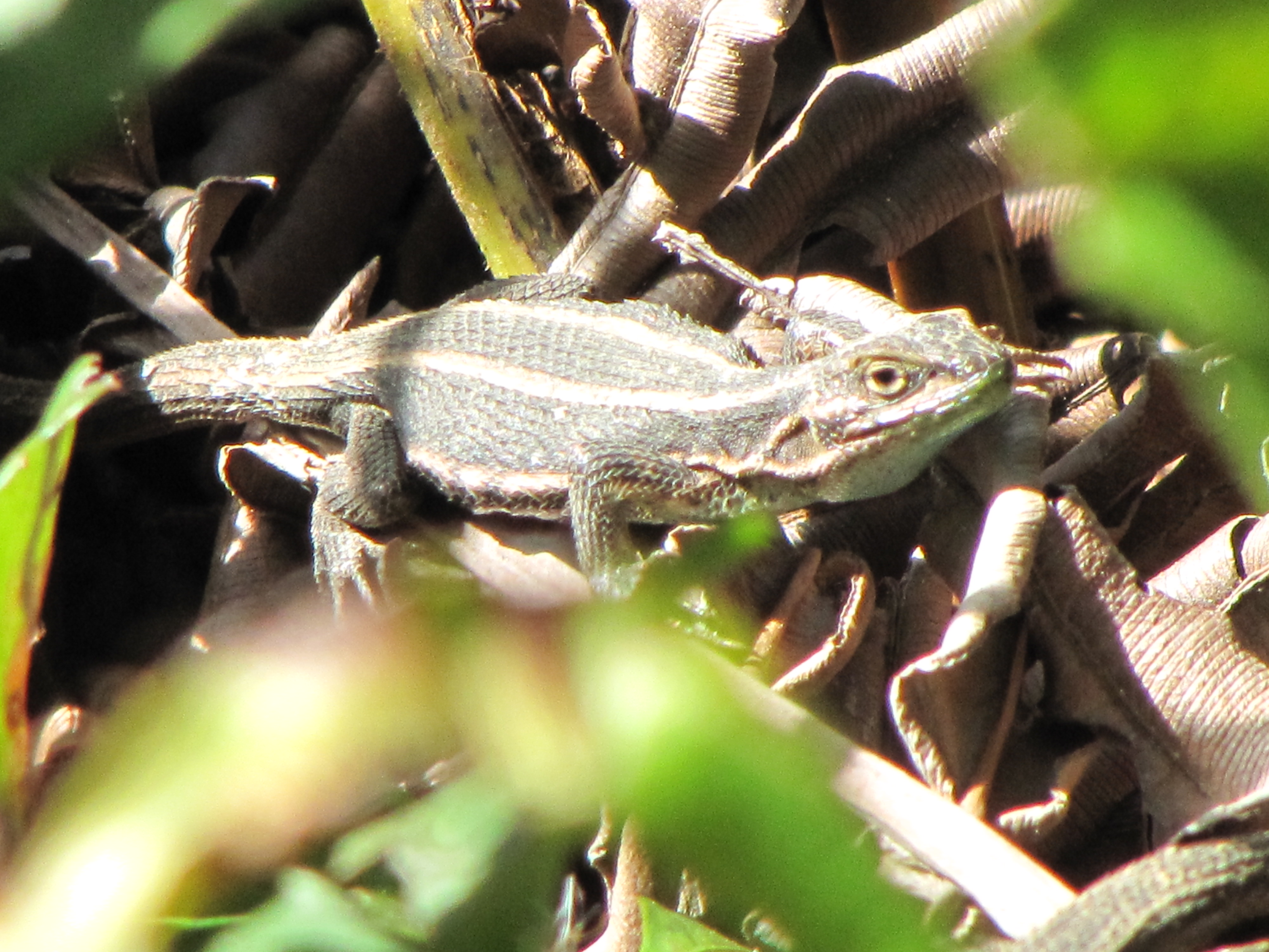 Chilean reptile species